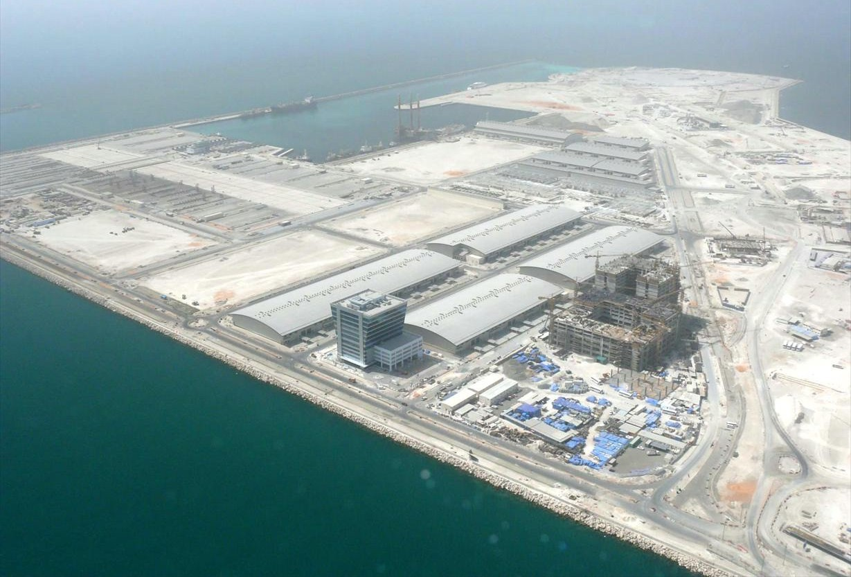 This is an aerial view of Dubai Maritime City in Dubai, United Arab Emirates on 8 May 2008. This photo was taken from a helicopter ride courtesy of Nakheel.